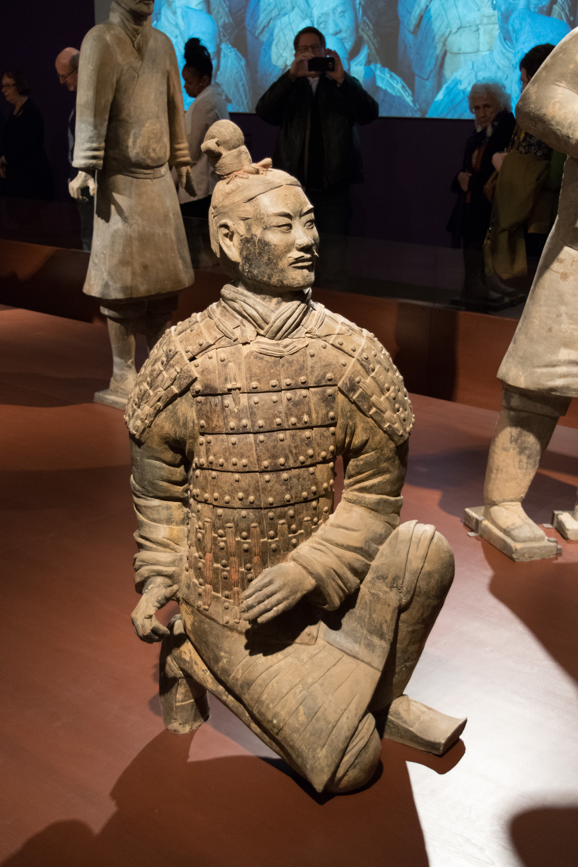 Kneeling archer.